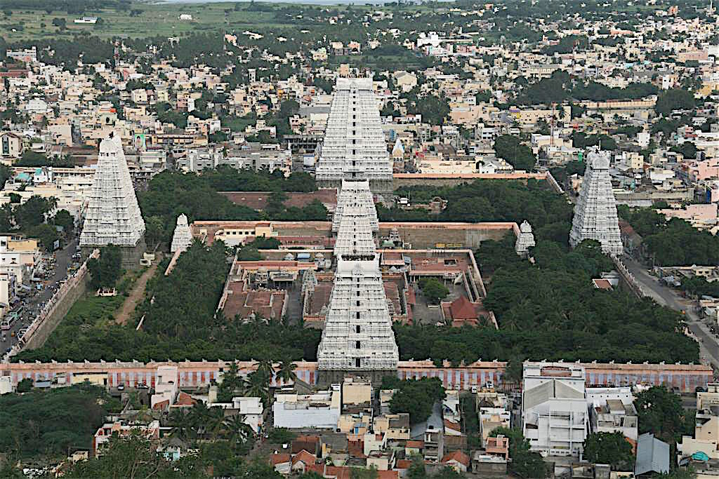 View of Arunachaleswara temple in Tiruvannamalai, Tamil Nadu, India as seen from Mount Arunachala